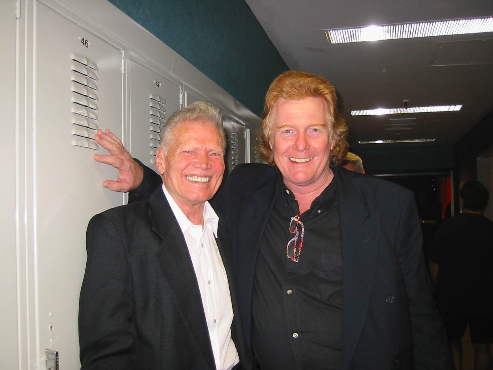 Tim Cooney and Vassar Clements backstage at the Grand Ole Opry